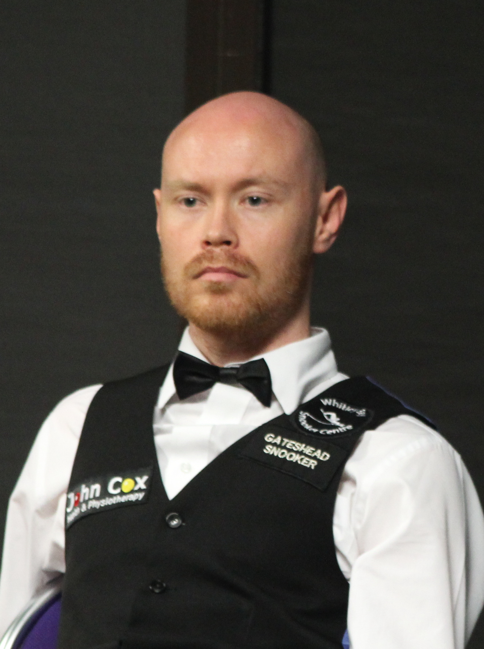 Gary Wilson beim Paul Hunter Classic 2016